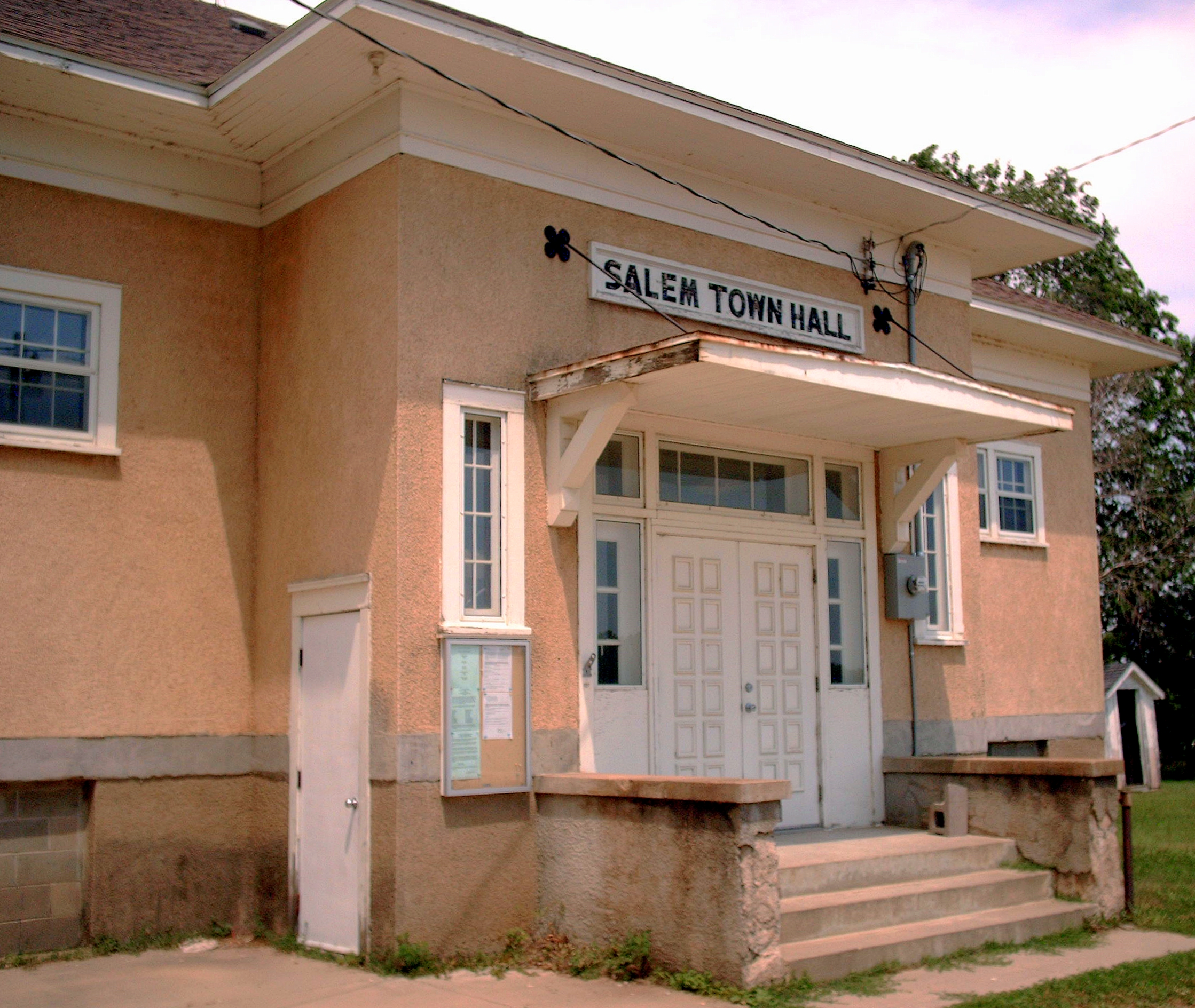 Photo I took 2006-07-04 of Salem Township Hall in Olmsted County, Minnesota. CC & GFDL.